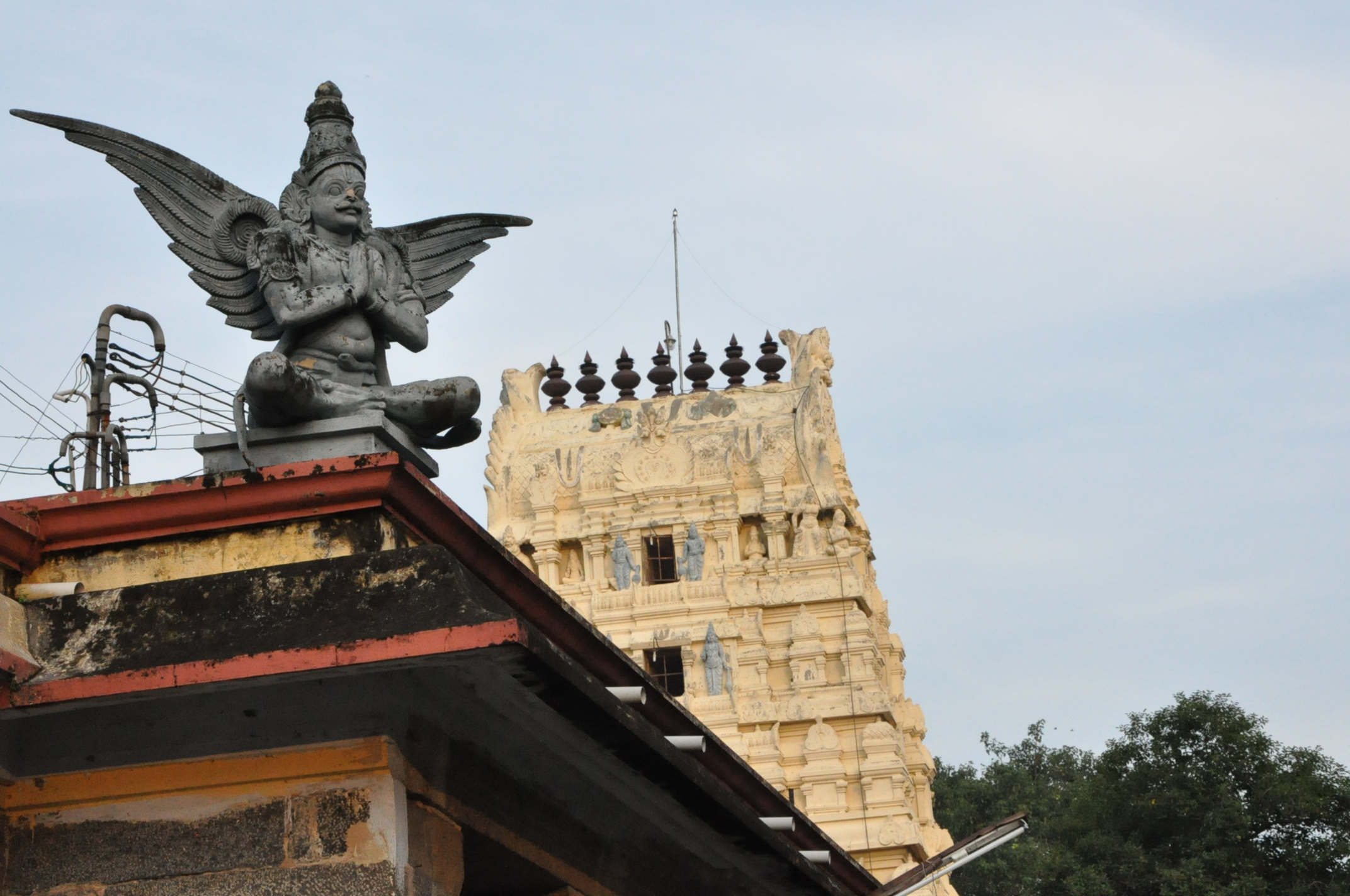 Madurantakam Yeri Katha Ramar Temple